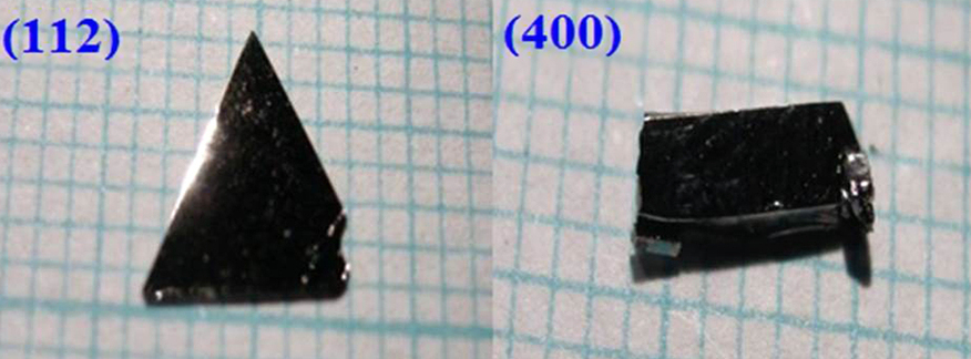 Cd3As2 single crystals grown by the self-selecting vapor growth (SSVG) method. The larger facets are (112) and (even 0 0) planes, respectively.